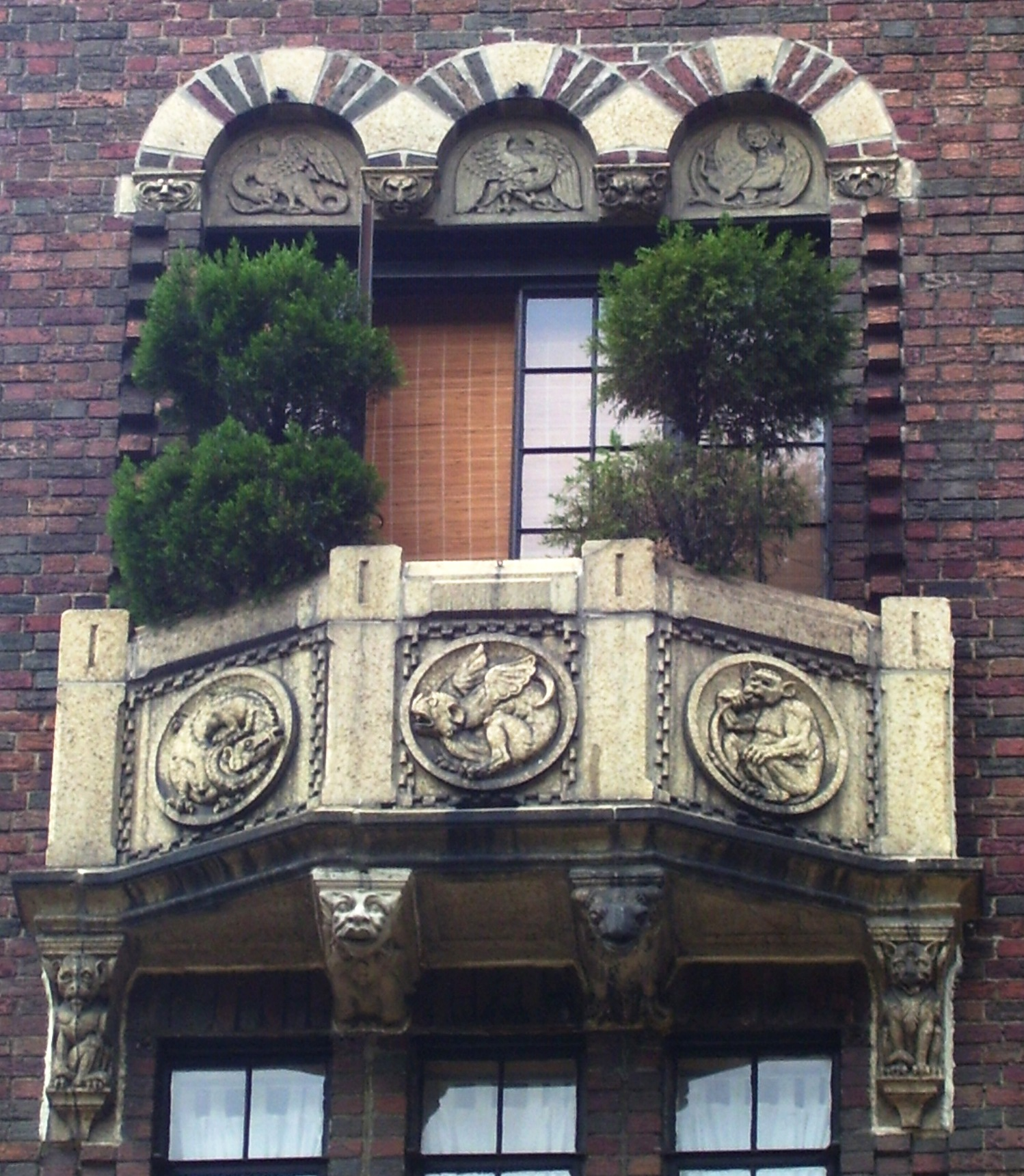 The apartment builing 81 Irving Place at the corner of 19th Street in the Gramercy Park neighborhood of Manhattan, New York City was built in 1929-30 and was designed by George Pelham with beige terra-cotta ornamentation. (Source: "81 Irving Place" at Gramercy Neighborhood Associates website)